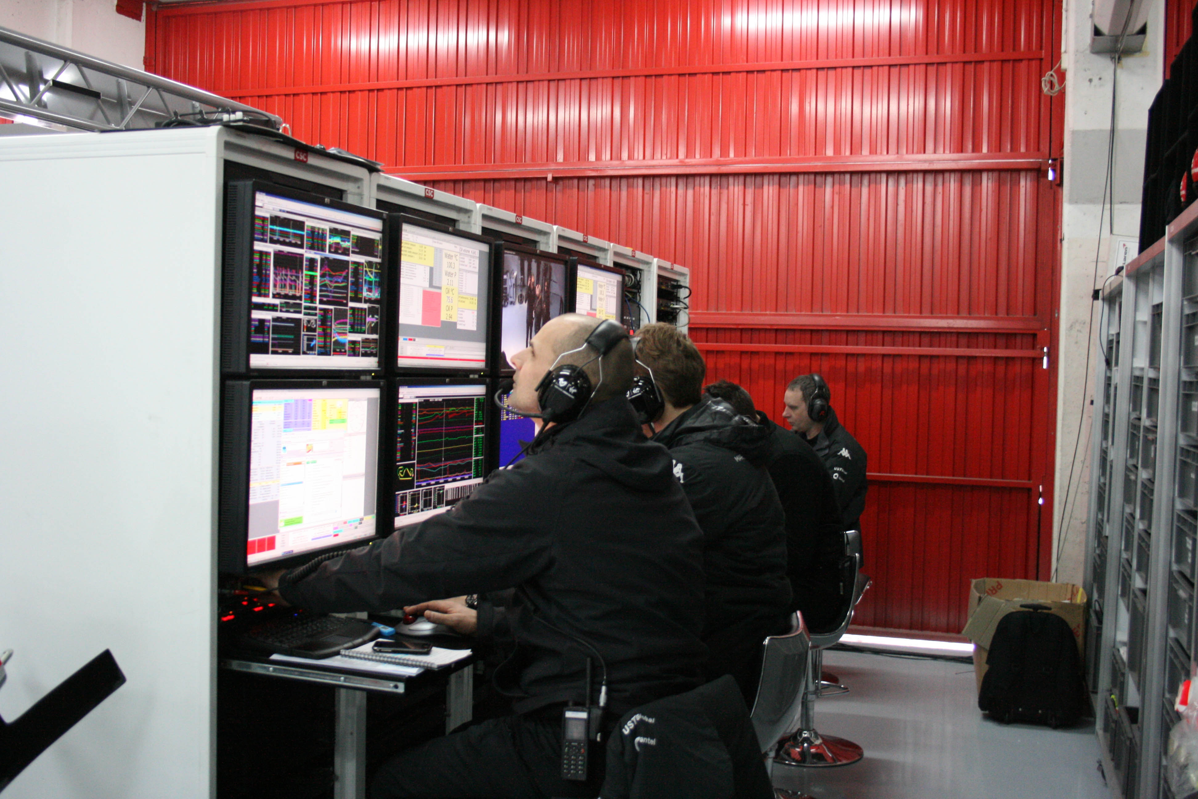 Virgin Racing